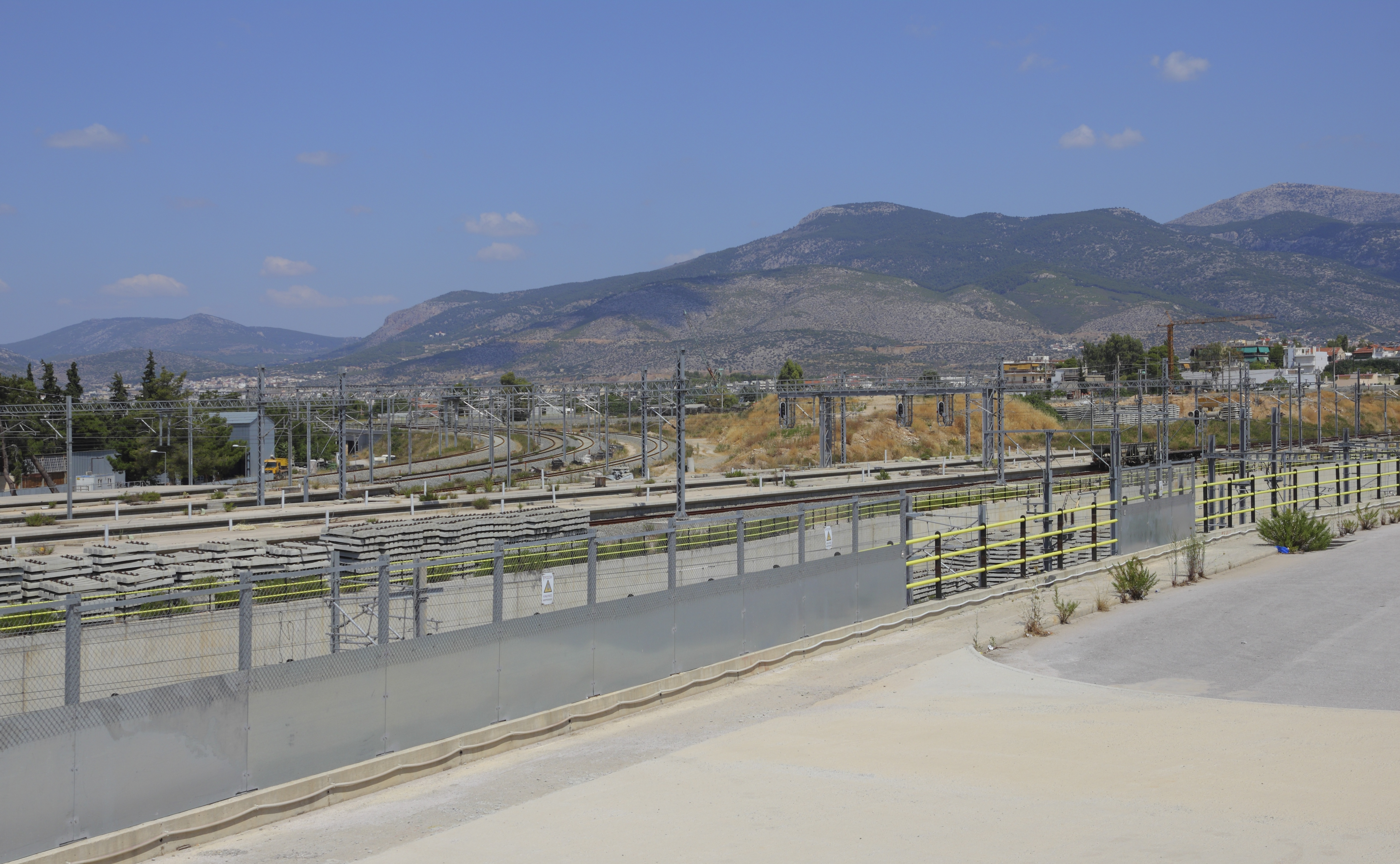 Proastiakos station «SKA» near Athens (Attica, Greece) – view to mount Parnitha